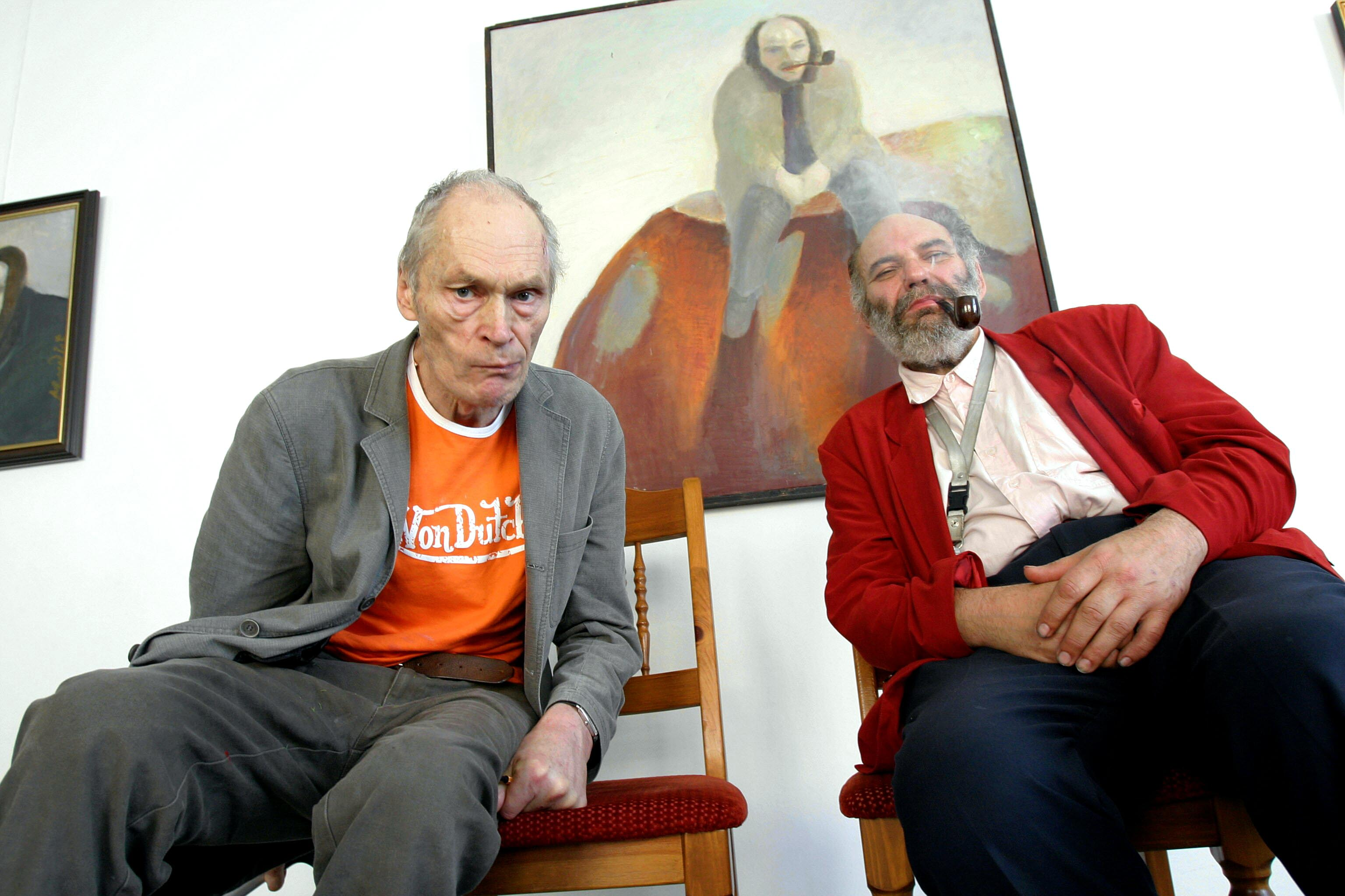 Estonian artist Peeter Mudist (left) and art collector Matti Milius (right).